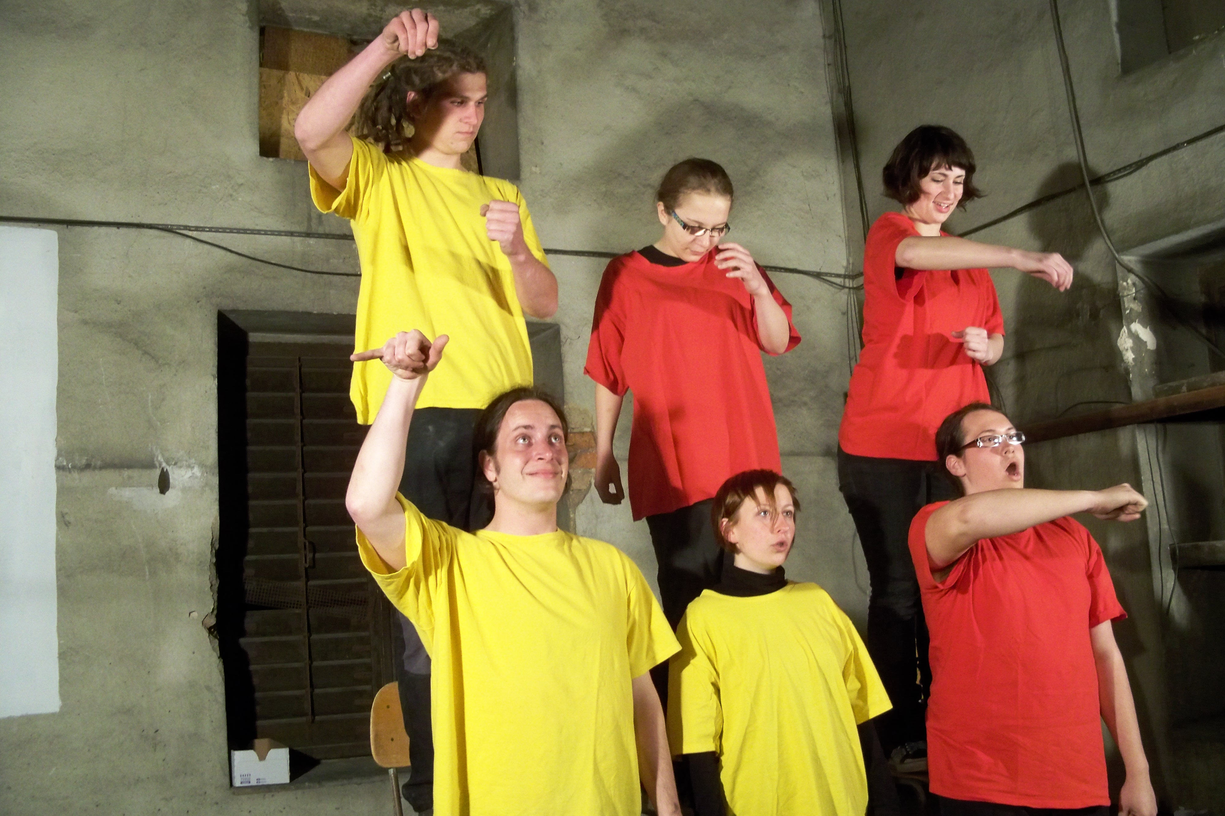 It's a photo from the impromatch omil vs klika.